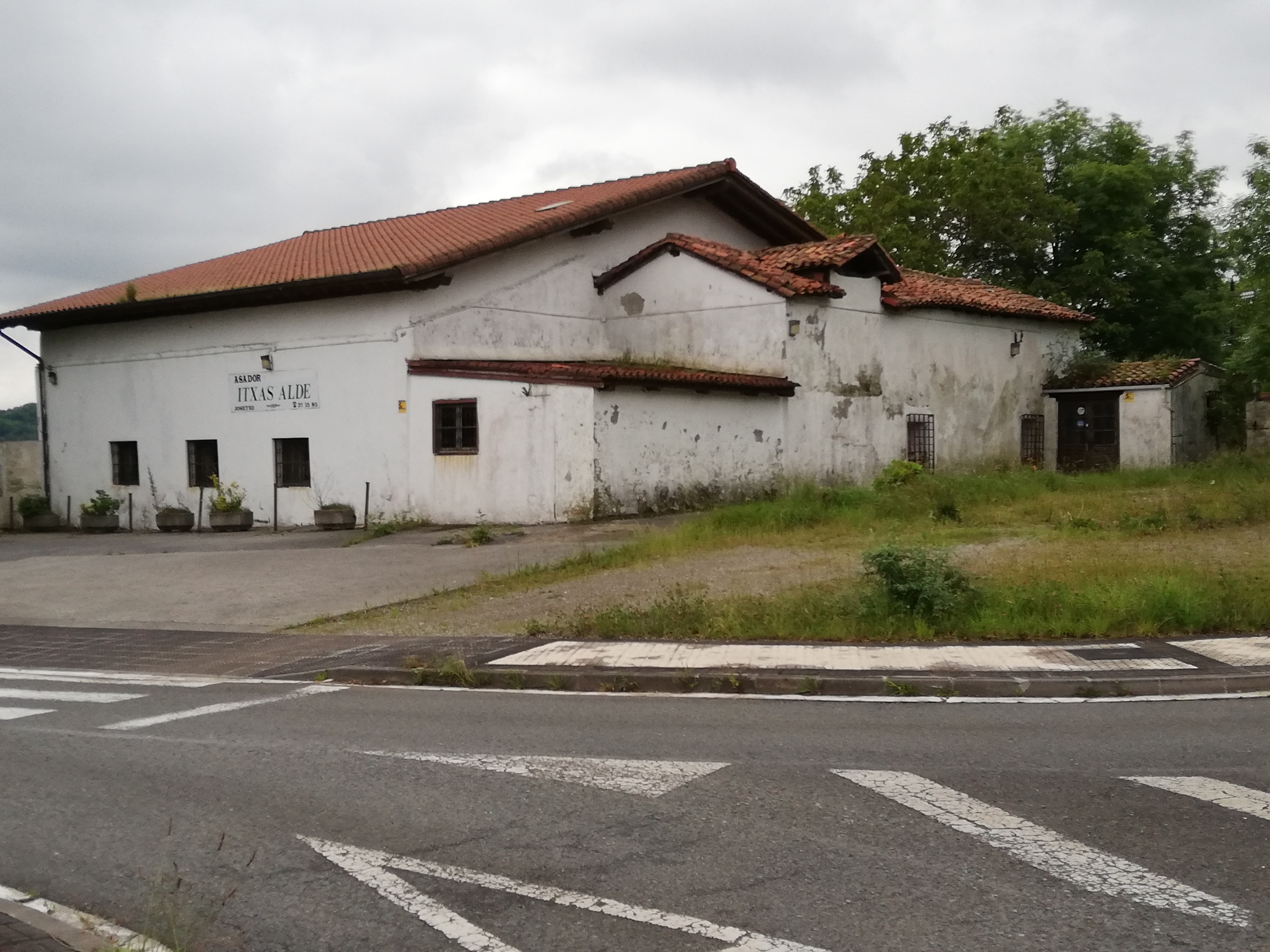 The only old building left in the area.